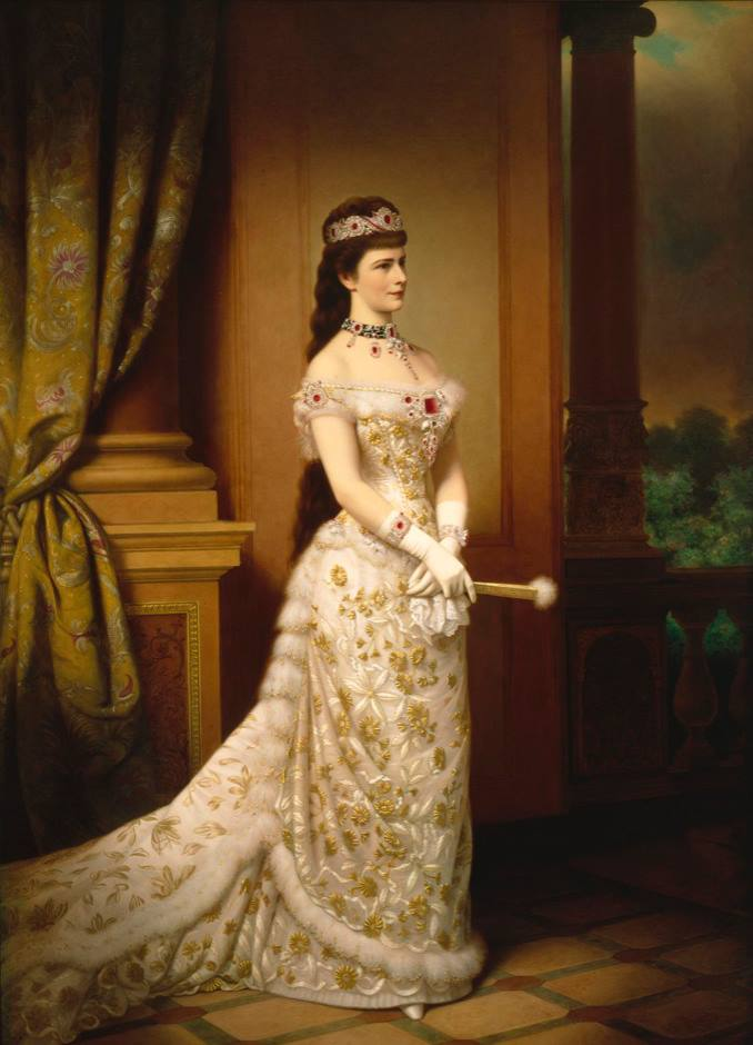 Portrait of Empress Elisabeth of Austria (1837-1898)